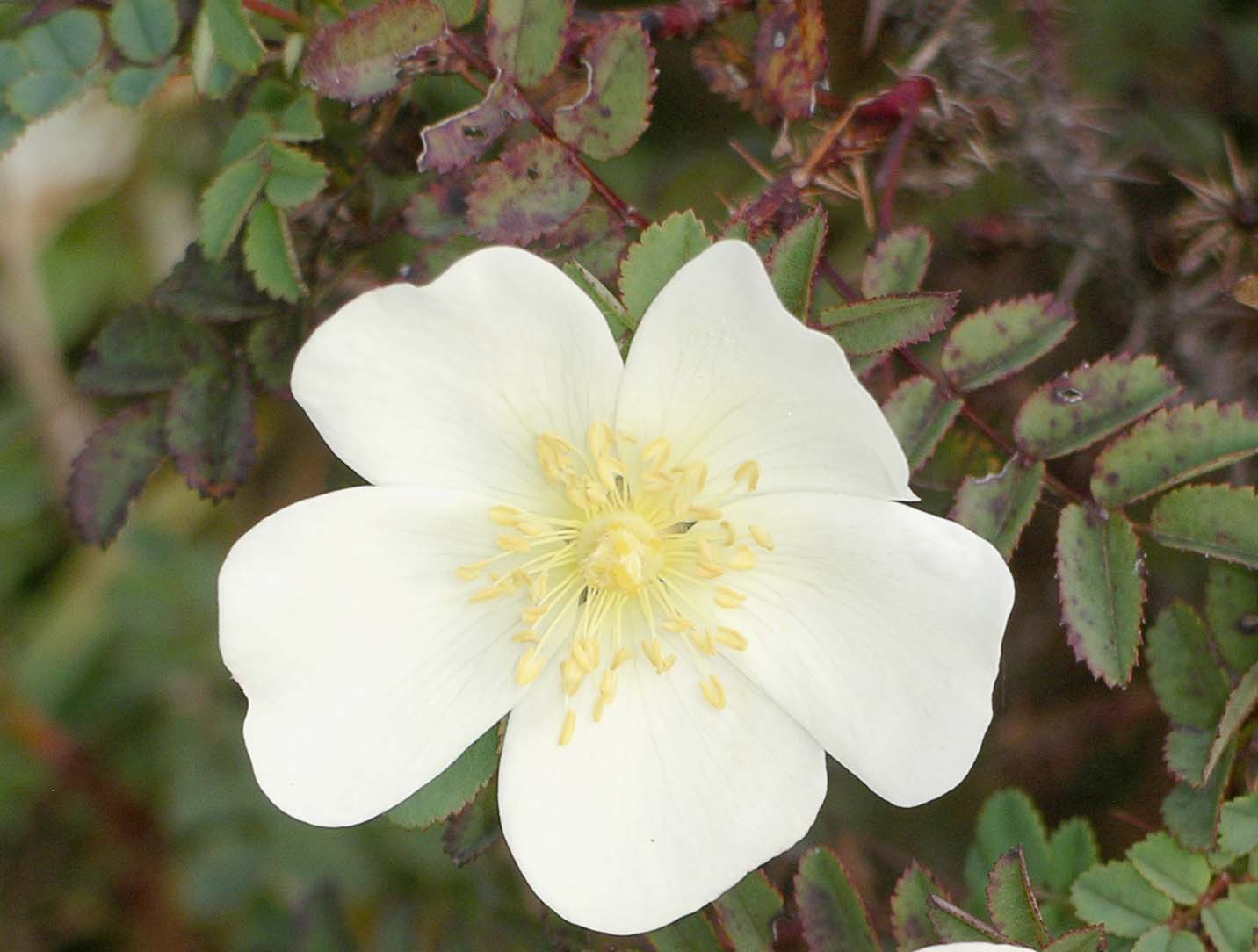 Rosa spinosissima (Burnet rose) flower growing on Newborough Warren